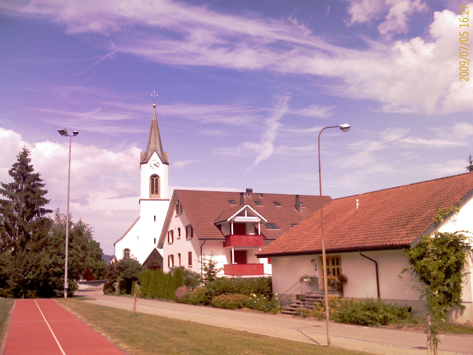 Church of Wittnau, canton of Aargau, SwitzerlandEsperanto: Preĝejo de Wittnau, Kantono Argovio, Svislando